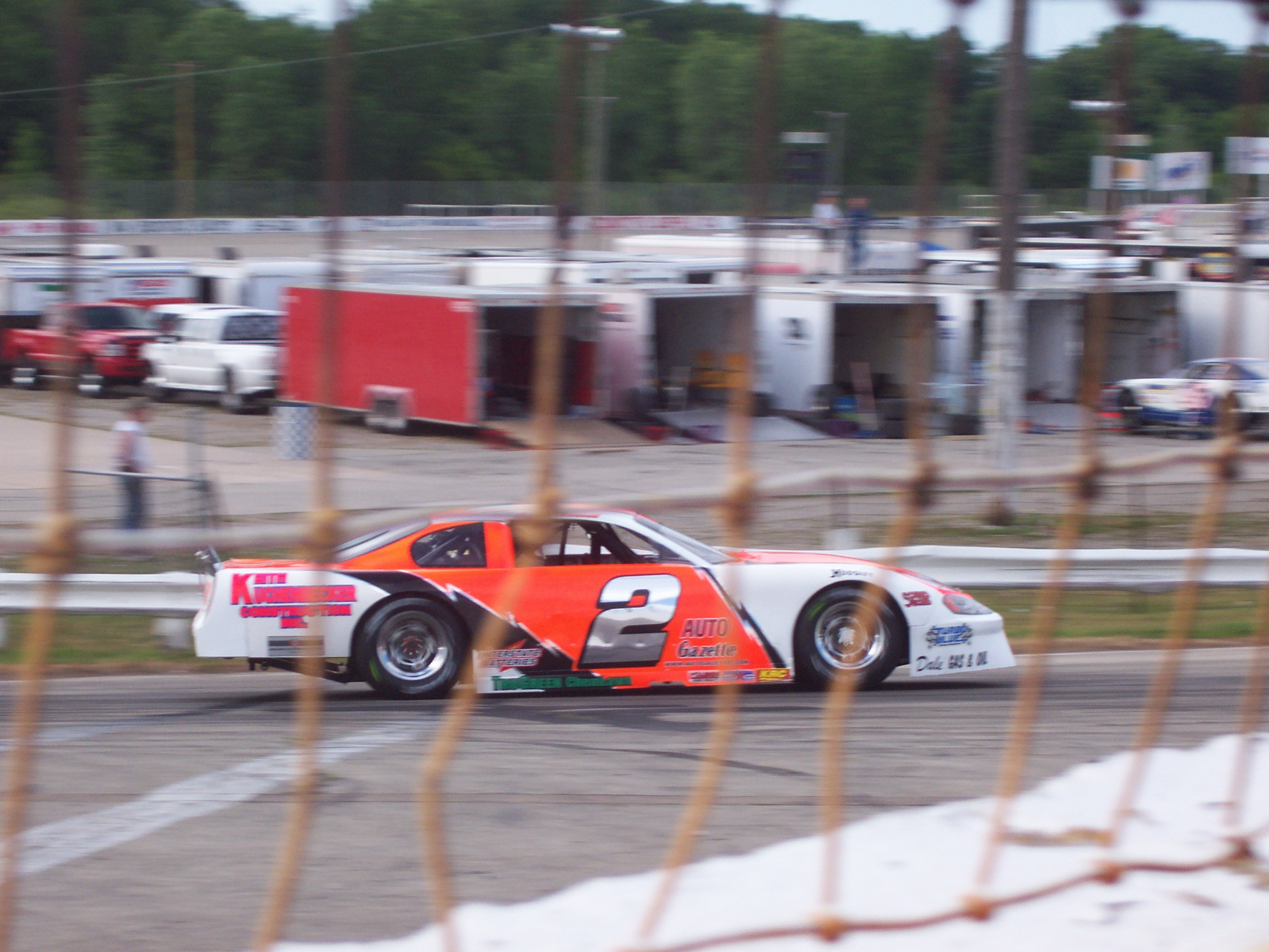 Super Late Model Lowell Bennett #2 at the Wisconsin International Raceway, taken July 22, 2006 by myself.